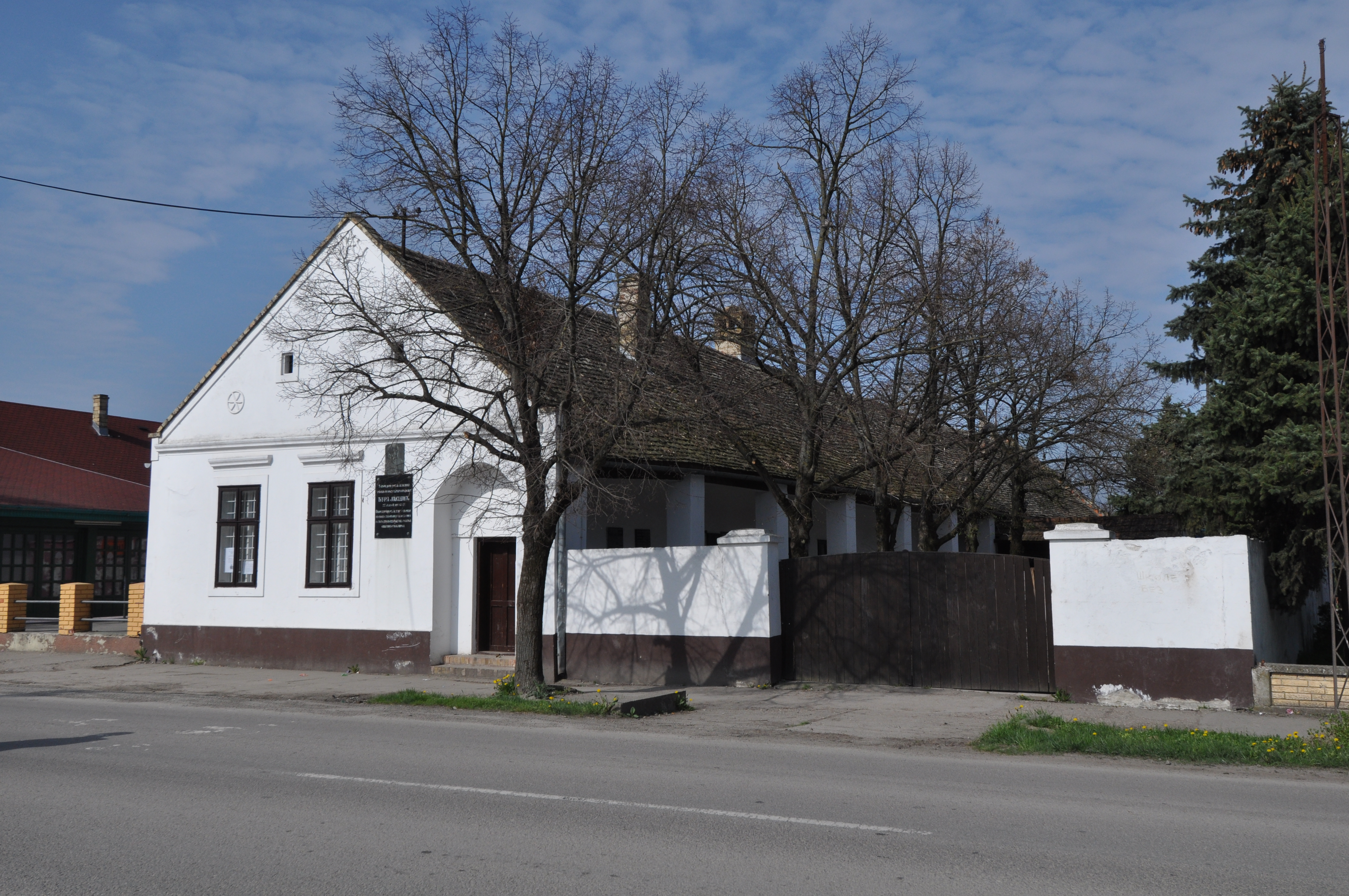 Birth house of Đura Jakšić in Srpska Crnja - street facade